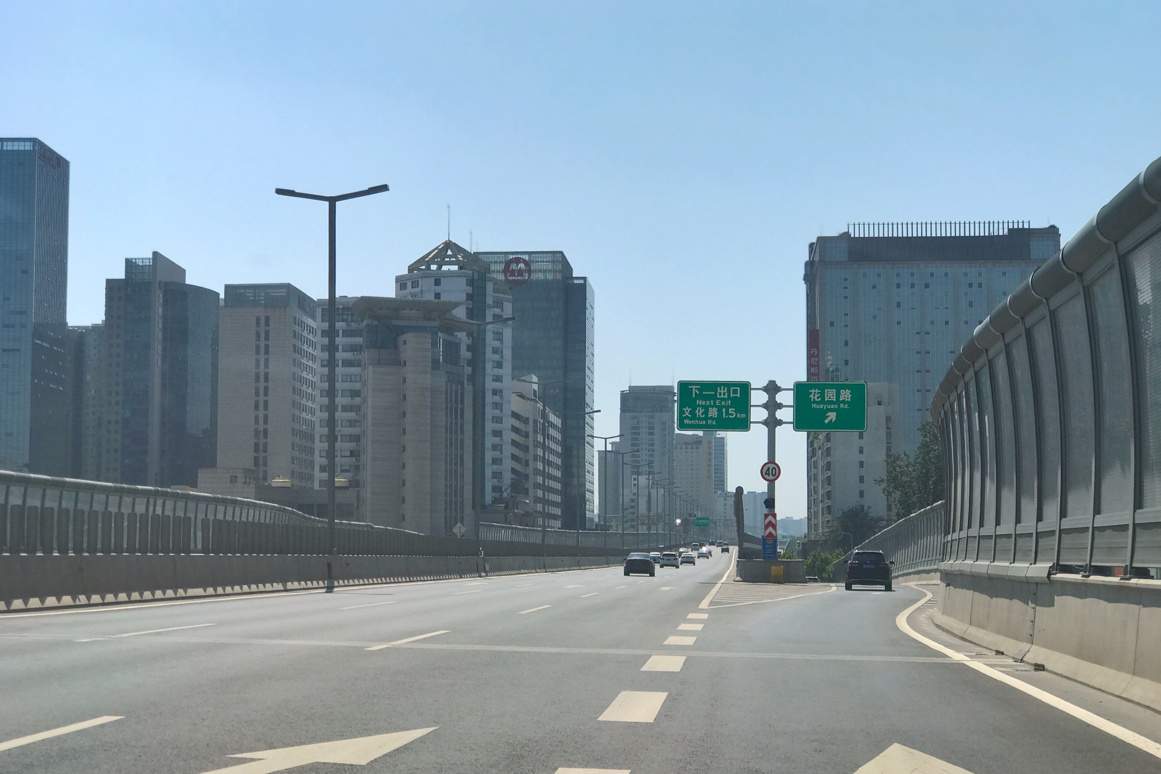 Nongye Expressway near Huayuan Road exit 中文（中国大陆）: 农业快速路花园路出口附近